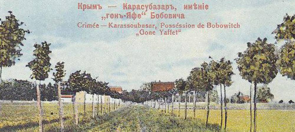 Имение «Ган яфе»